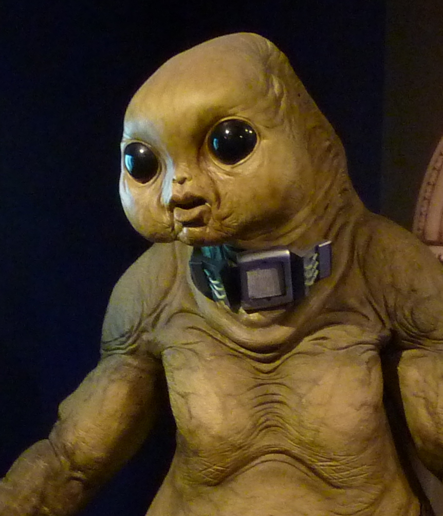 Doctor Who Experience London Olympia Doctor Who Experience